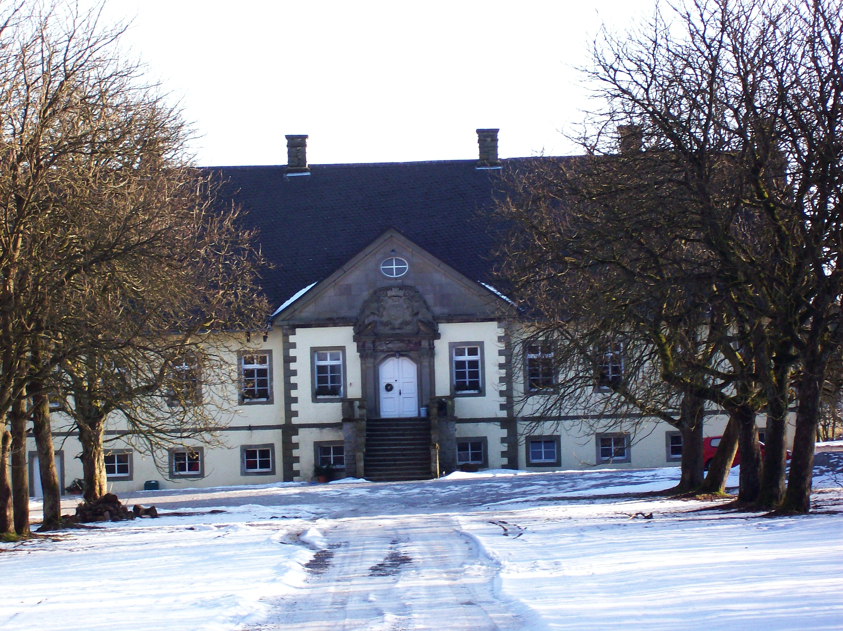 Haus Almerfeld, Brilon (Germany)